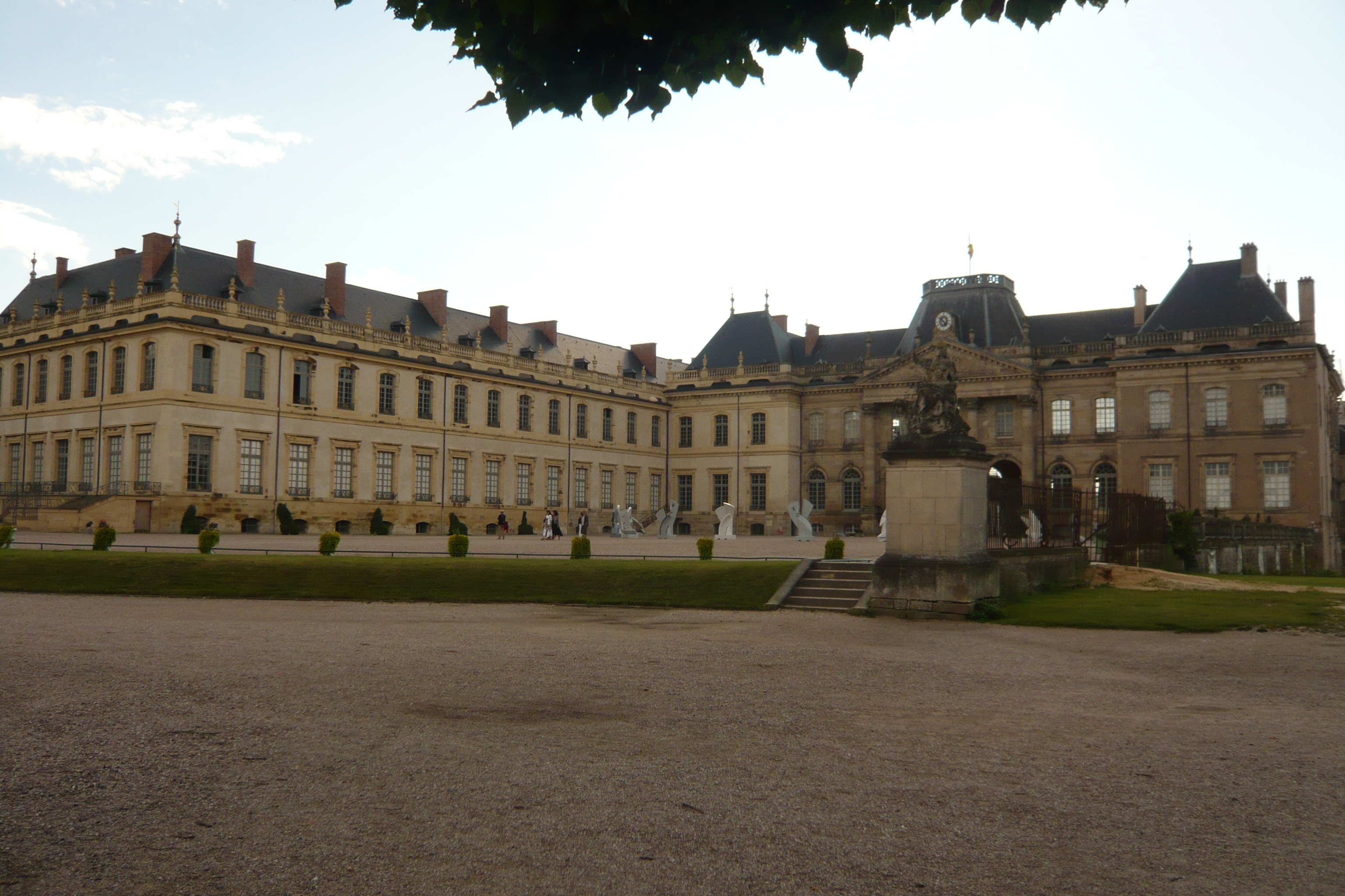 Château de Lunéville August 2012 .